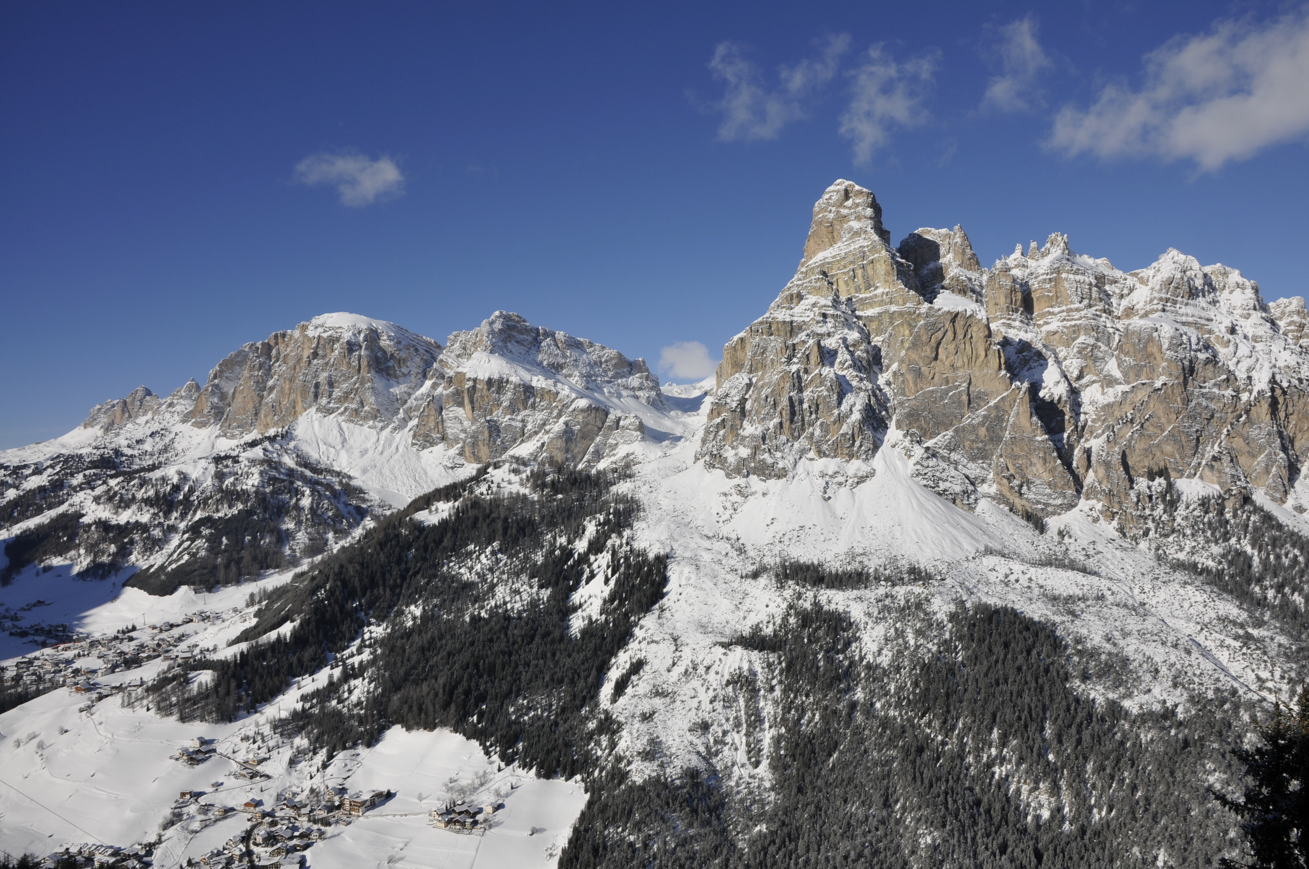 Piz Ciampac, Furcela Ciampai and Sassonger